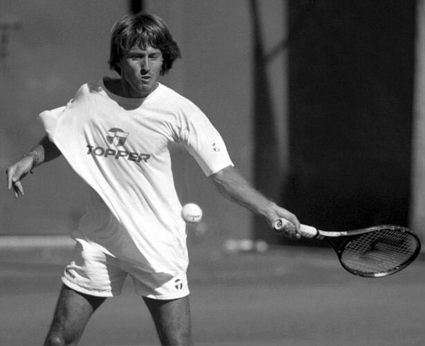 juniors